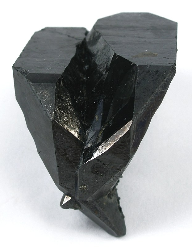 Ferberite Locality: Tazna Mine (Tasna Mine; Tazna-Rosario Mine), Cerro Tazna, Atocha-Quechisla District, Nor Chichas Province, Potosí Department, Bolivia (Locality at ) Size: 4.8 x 4.0 x 3.6 cm. A supremely sharp, jet-black, metallic twinned crystal of ferberite from perhaps the best locality for the species in its twinned habit. This crystal is 3-dimensional, sharp, and really beautiful for a "black ugly." It is almost pristine, with just a few really insignificant dings and otherwise compete all around. It was one of the finest pieces, certainly among the best few miniatures, in a small pocket recovered in about 2004-2005 and sold by the dealership of Bolivian mineral specialist, Brian Kosnar.